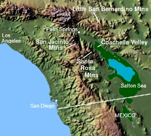 Coachella Valley — and the mountain ranges of Southern California. © 2004 Matthew Trump